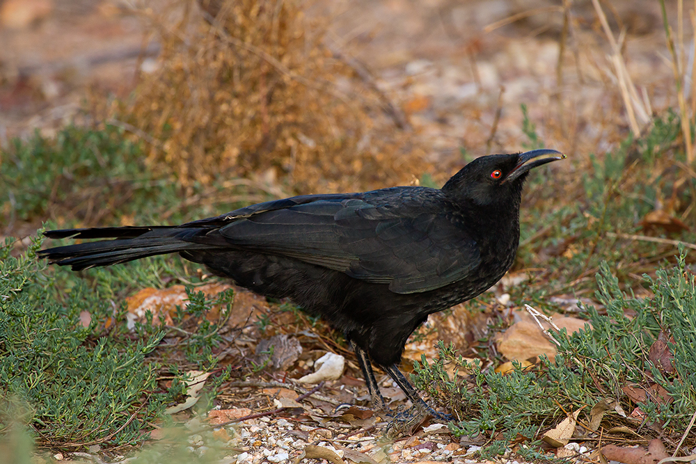 A Corcorax melanorhamphos in Victoria, Australia.